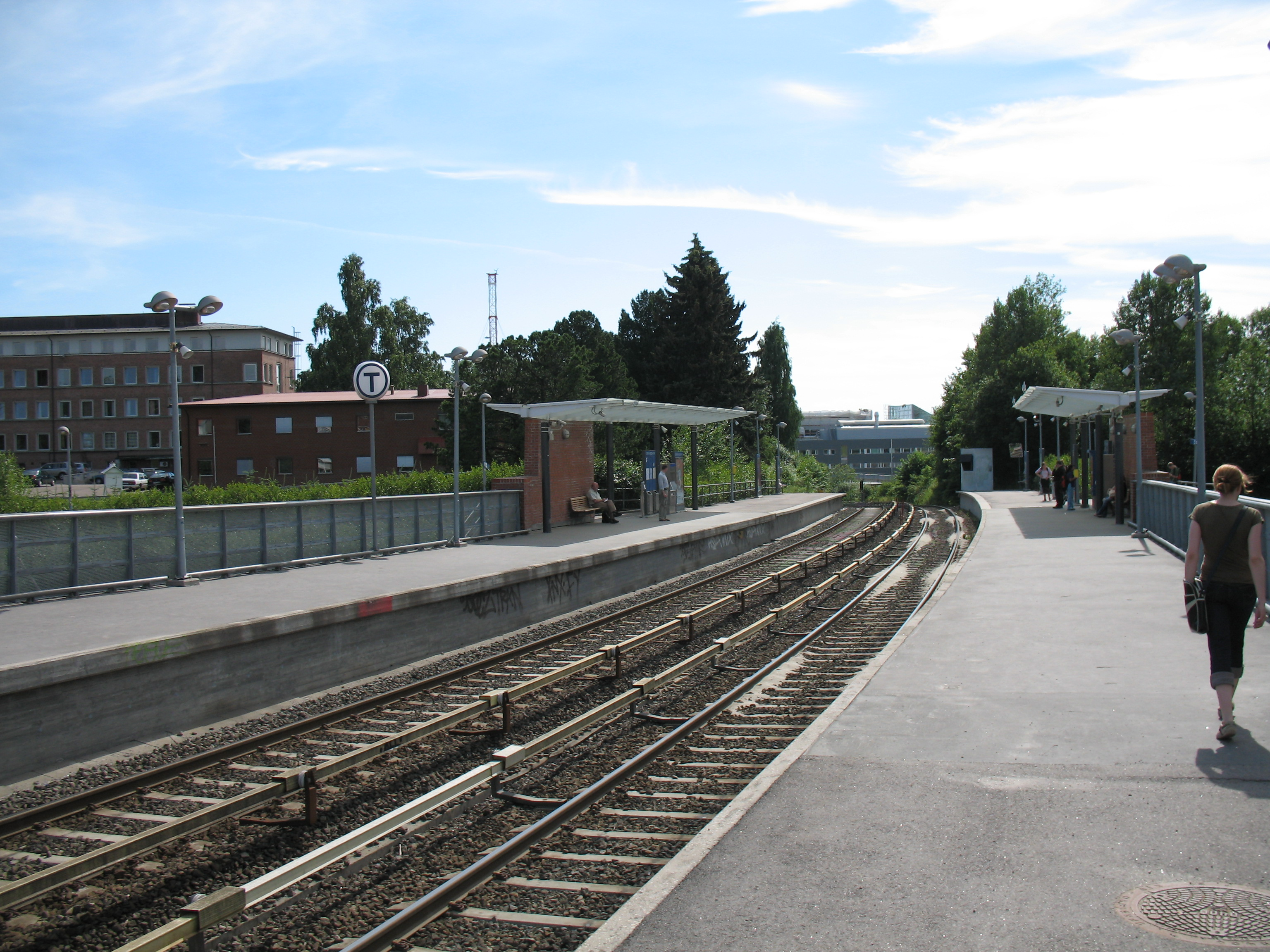 Oslo subway station Forskningsparken.